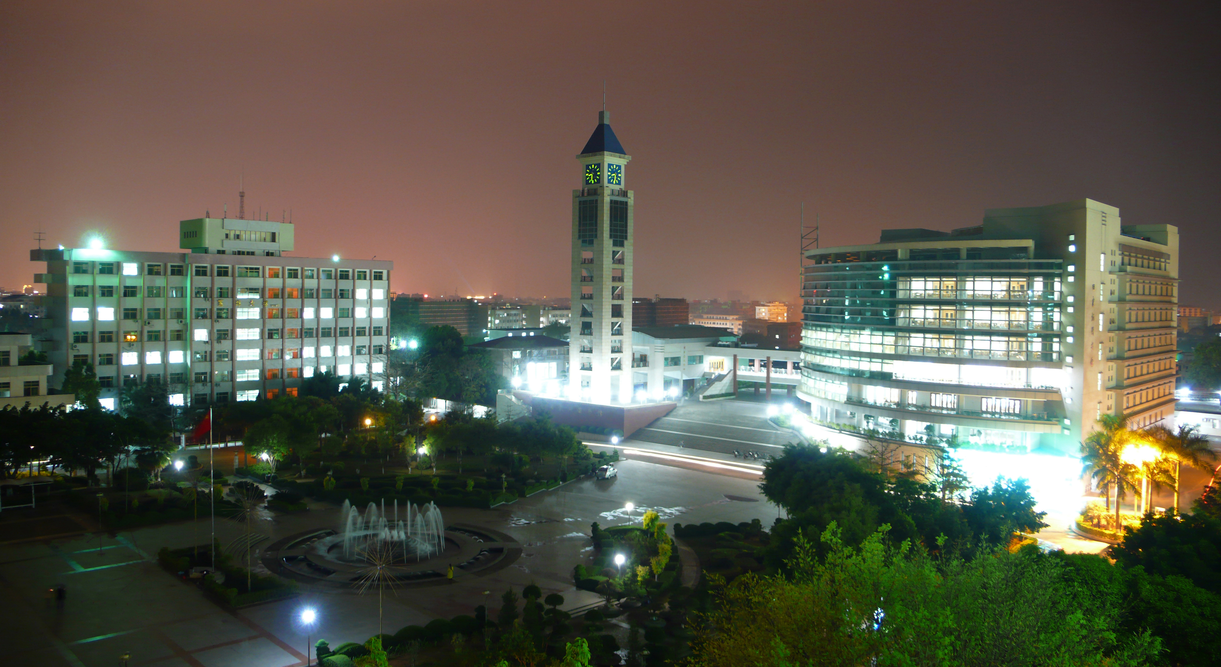 Night view of Jiaying University 中文（中国大陆）: 中华人民共和国广东省梅州市嘉应学院夜景图书馆与宪梓楼